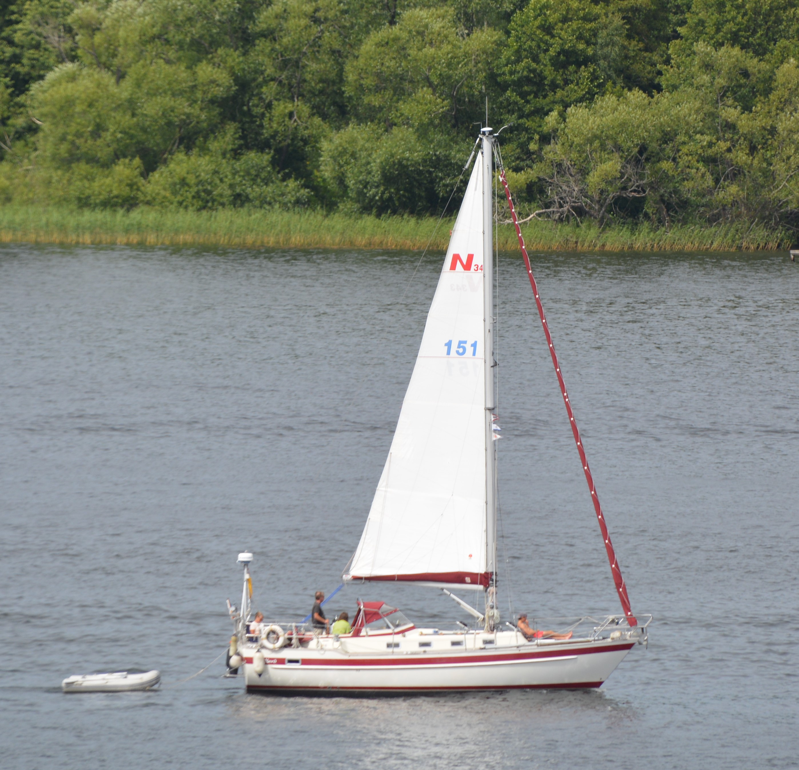 Sailing yacht Najad 34